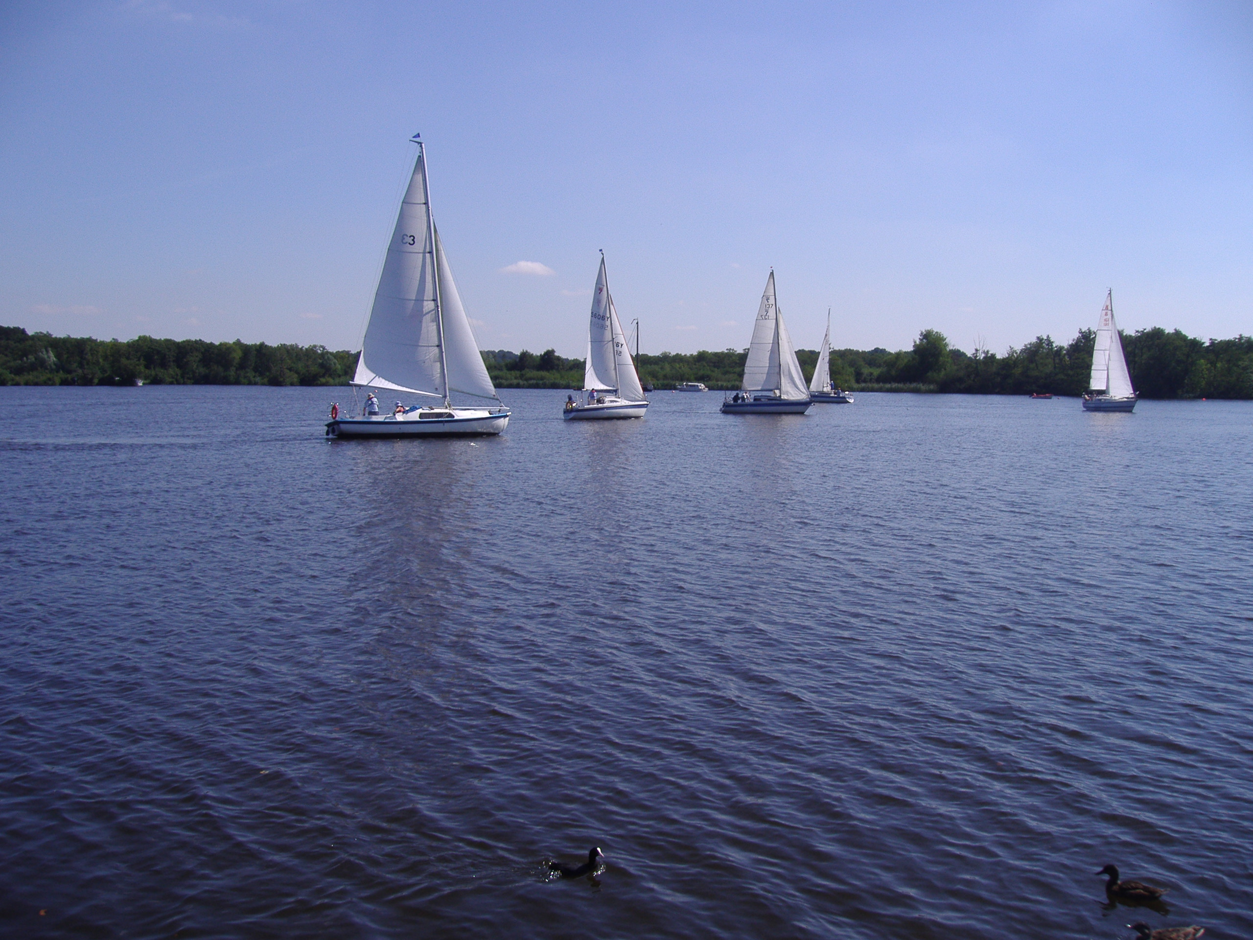 A Photograph of Wroxham Broad on 25th August 2007. Wroxham Broad is on the River Bure near the town of Wroxham in Norfolk, England within The Broads National Park